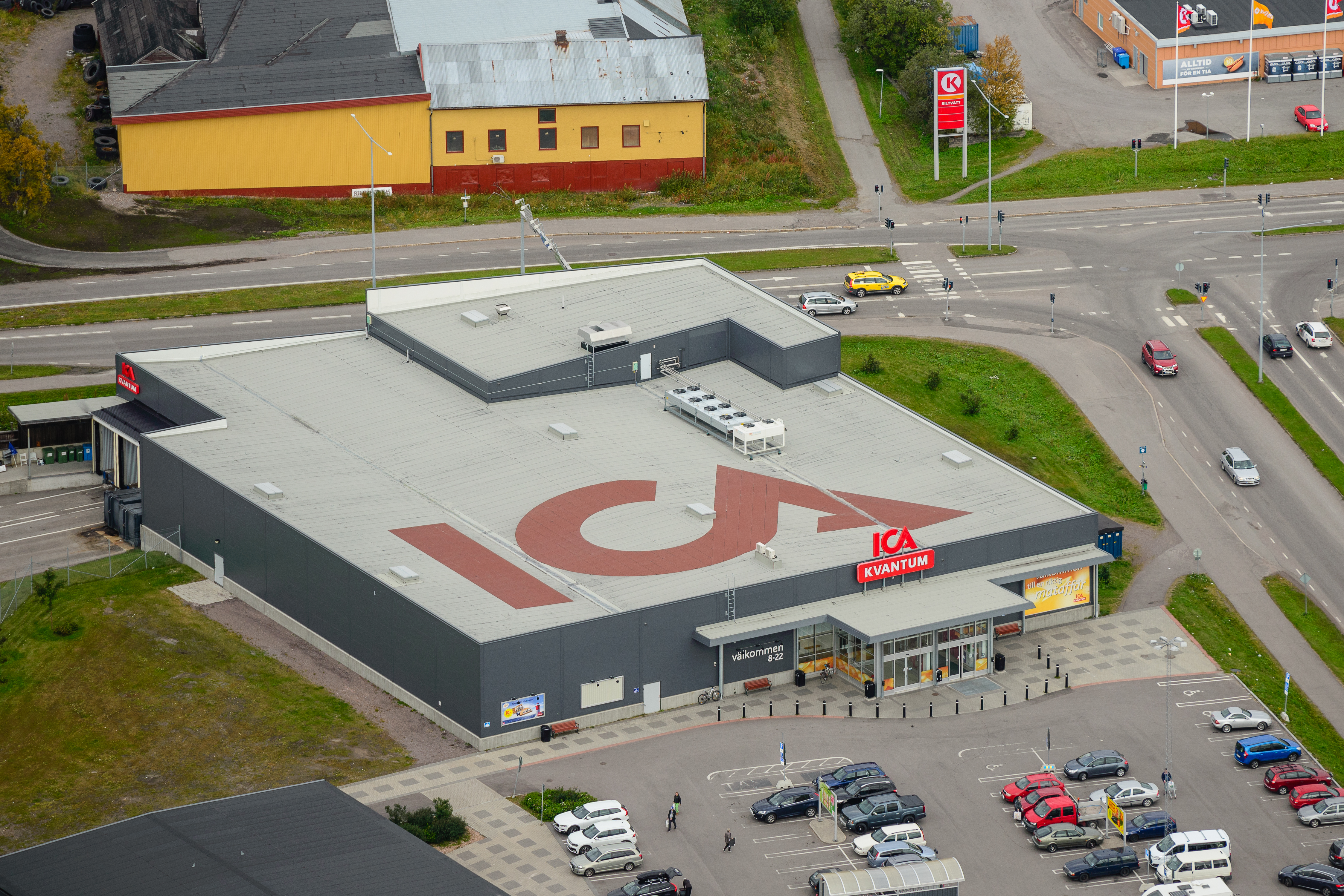 Supermarket (ICA Kvantum) in Kiruna, Sweden.